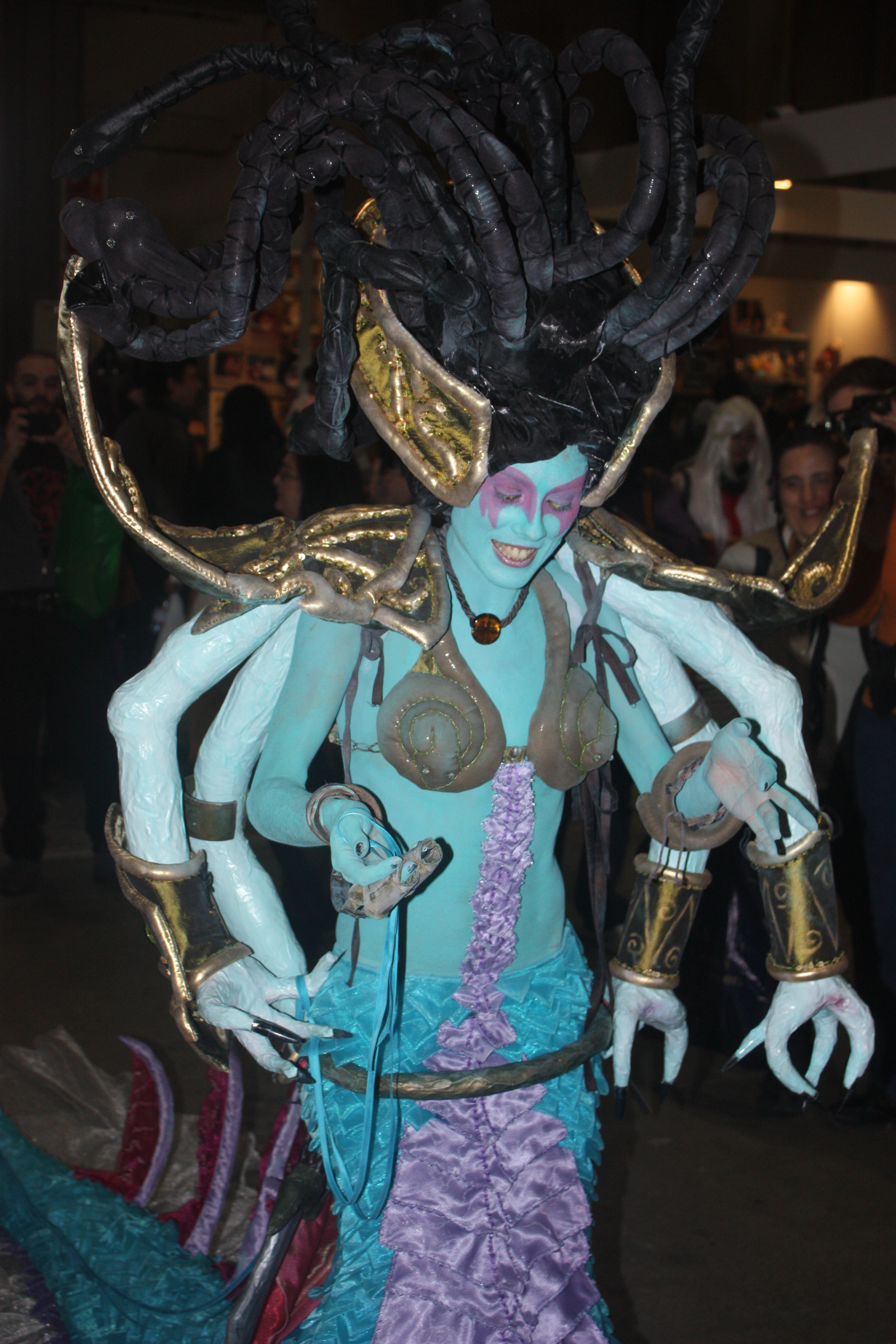 Cosplay of Lady Vashj from the videogame World of Warcraft. Photo shoot at Cartooncomics 2012, Milan, on 17th march 2012